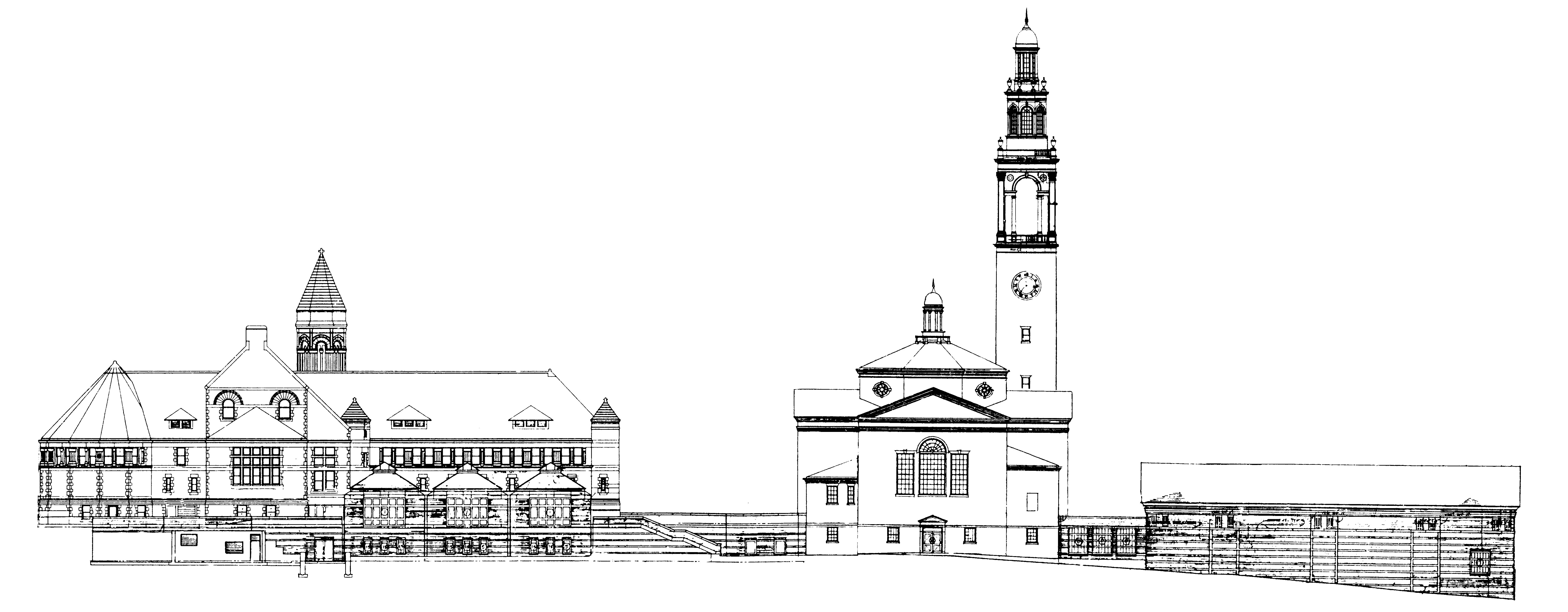 Schematic taken from the pamphlet outlining the dedication ceremonies of The Billings-Ira Allen Campus Center, Friday the 18th of April 1986. Facing the rear of the buildings (from the east), there is; The Billings Memorial Library (built in 1883) on the left, Ira Allen Chapel (built in 1925-26) in the center, and the Ira Allen-Billings Student Center (built between 1984-86) connecting the two buildings at their ground and basement levels. The Billings-Ira Allen Lecture Hall (otherwise known as the Campus Center Theatre) is on the right, and also connects to the Ira Allen Chapel at the ground level.